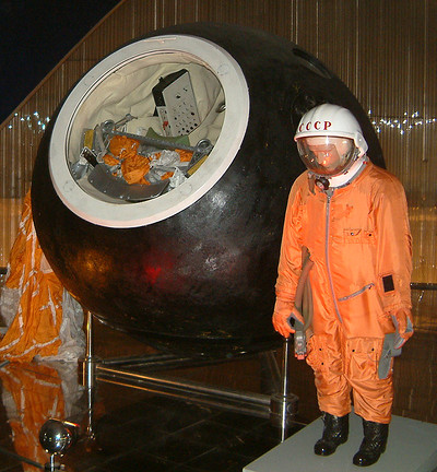 Capsule and space suit of Yuri Gagarin, first man in space, at the Memorial Museum of Astronautics in Moscow